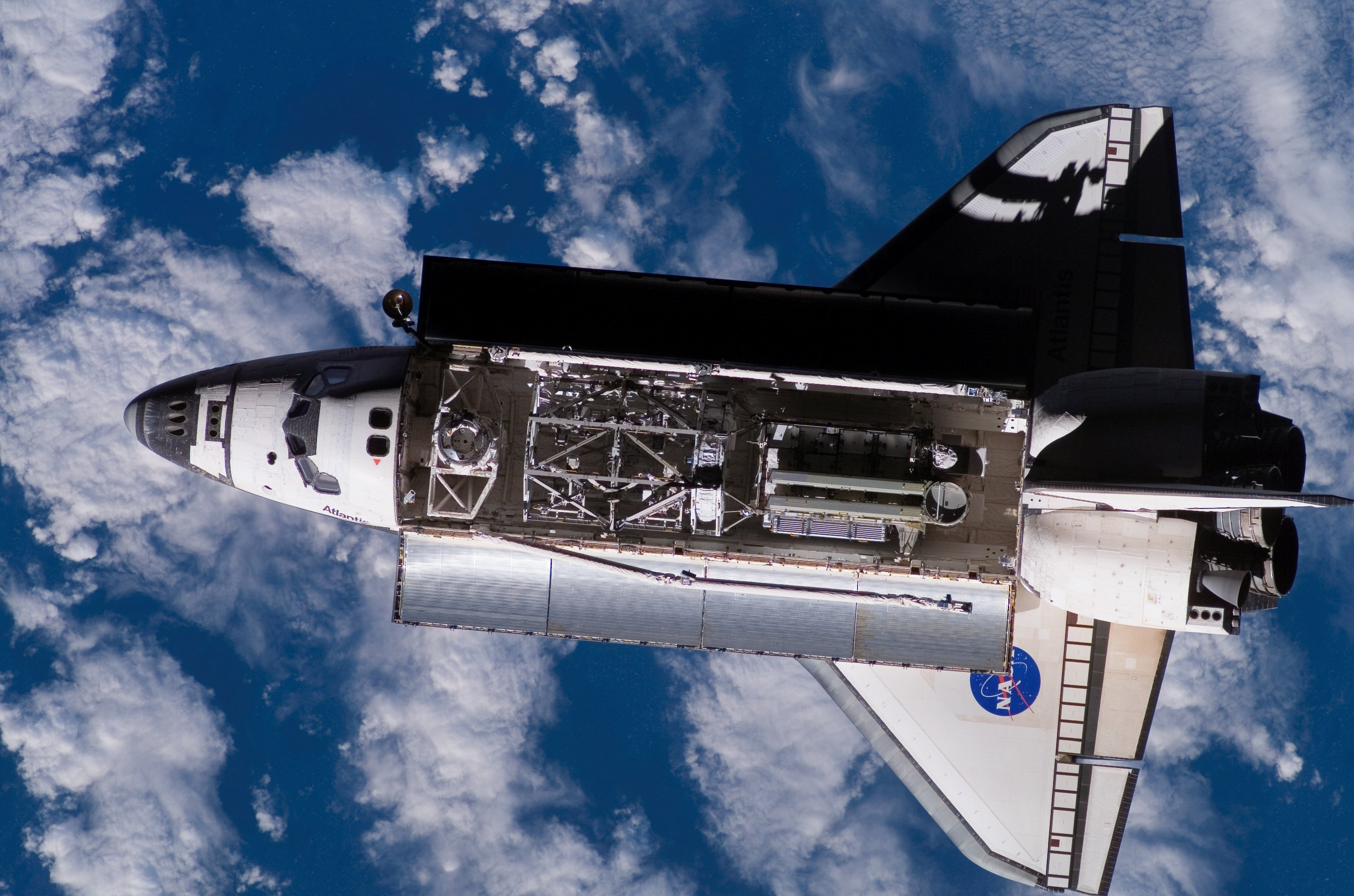 A nadir view of the Space Shuttle Atlantis was photographed by a member of the Expedition 15 crew aboard the International Space Station as the two spacecraft were nearing their much-anticipated link-up in Earth orbit. The 17.8 ton S3/S4 truss to be added next week to the station can be seen berthed in the payload bay of the shuttle.